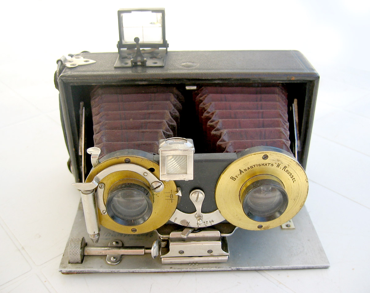 Stereographic camera - Le Rêve - France 1904 Personal picture